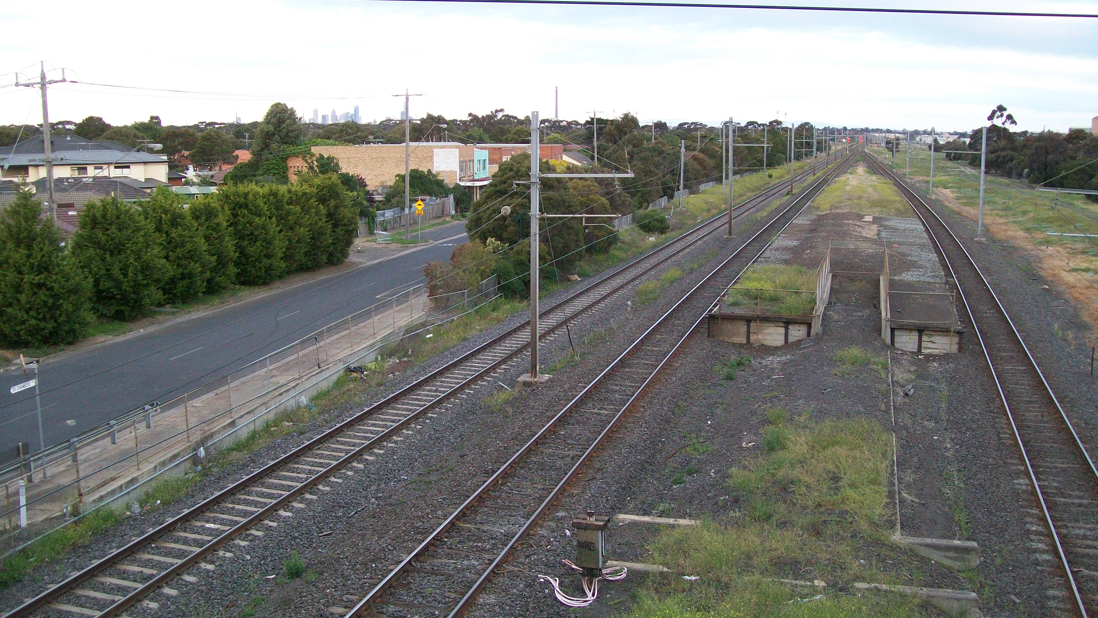 Railway platform of former Paisley railway station, Melbourne. Viewed from Millers Road overpass, Altona.